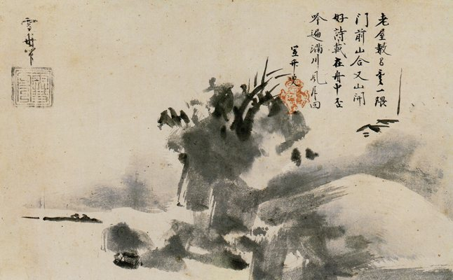 Landscape by Sesshu, Idemitsu Museum of Arts, Tokyo